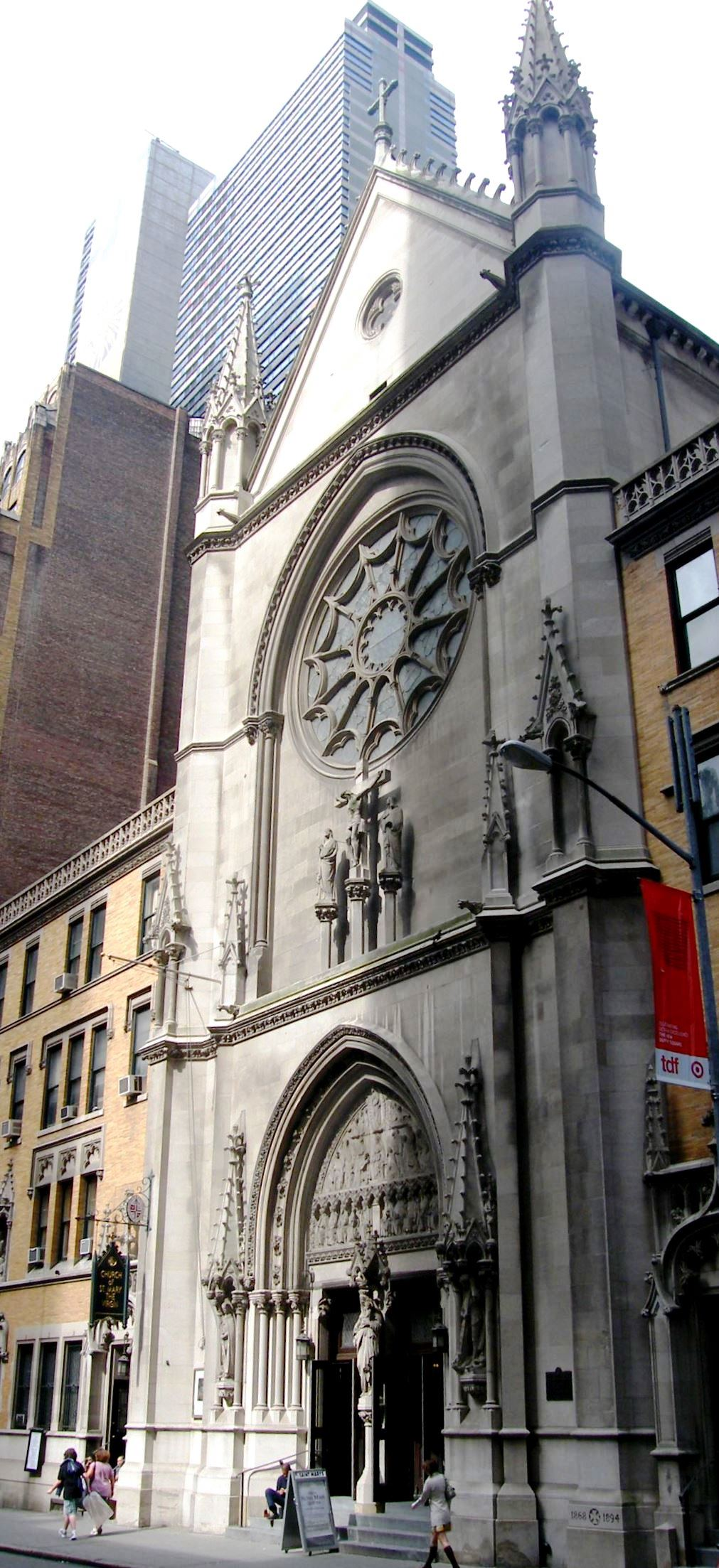 The Church of St. Mary the Virgin at 139 West 46th Street between Sixth and Seventh Avenues in the Times Square area of Manhattan, New York City is an Episcopal church built in 1894-95 and designed by Pierre LeBrun of Napoleon LeBrun & Sons. In 1996-97 the church was restored by J. Lawrence Jones & Associates. (Source: From Abyssinian to Zion (2004))